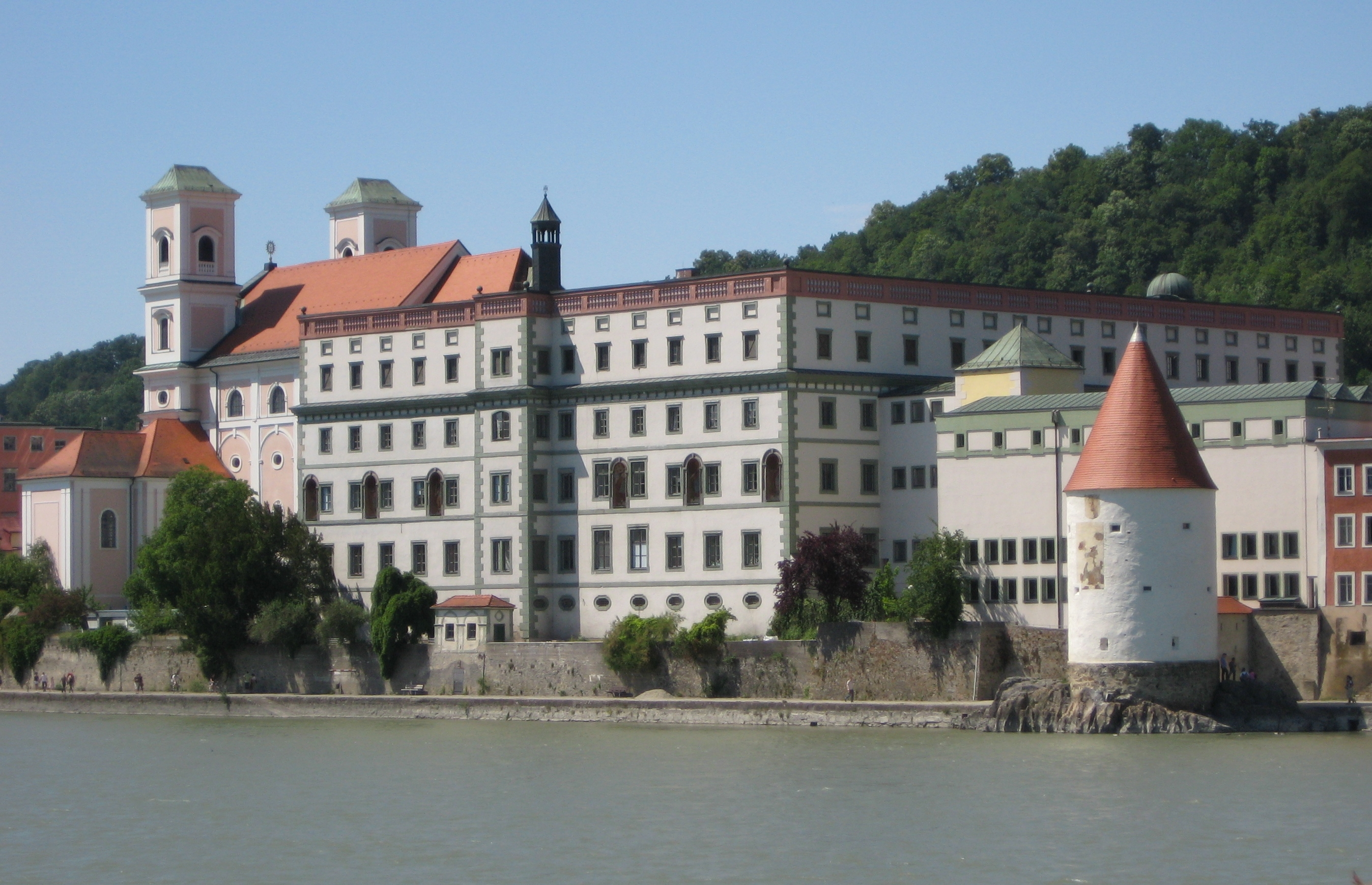 Gymnasium Leopoldinum, Passau